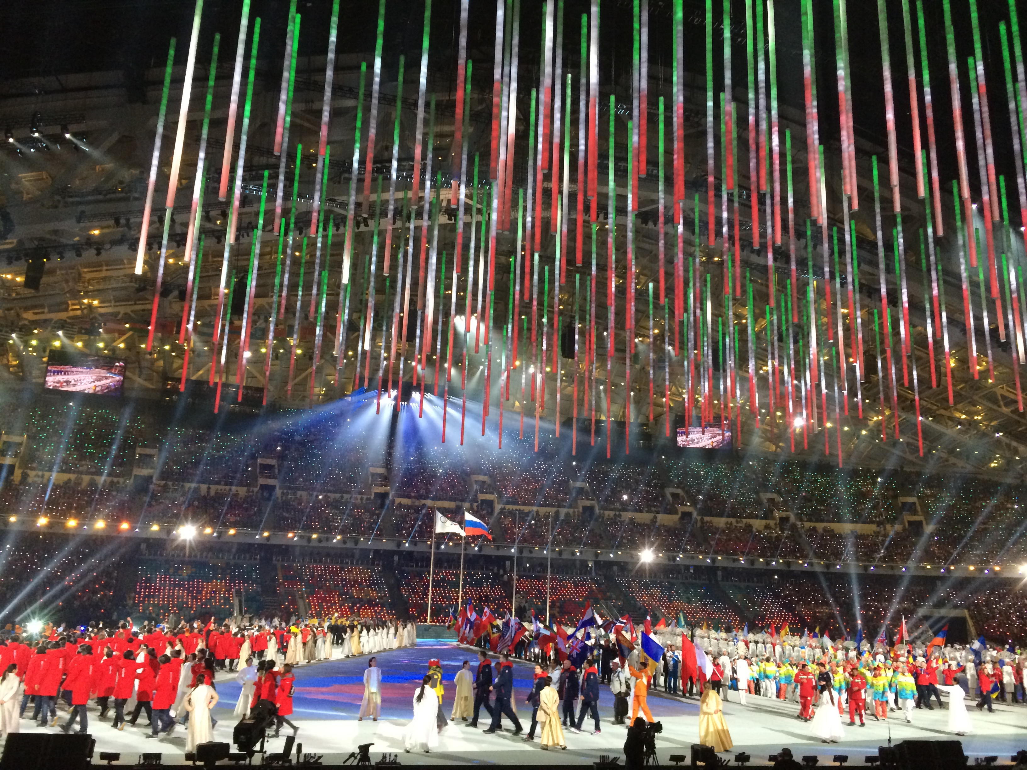 Closing Ceremony, Fisht Olympic Stadium (20)